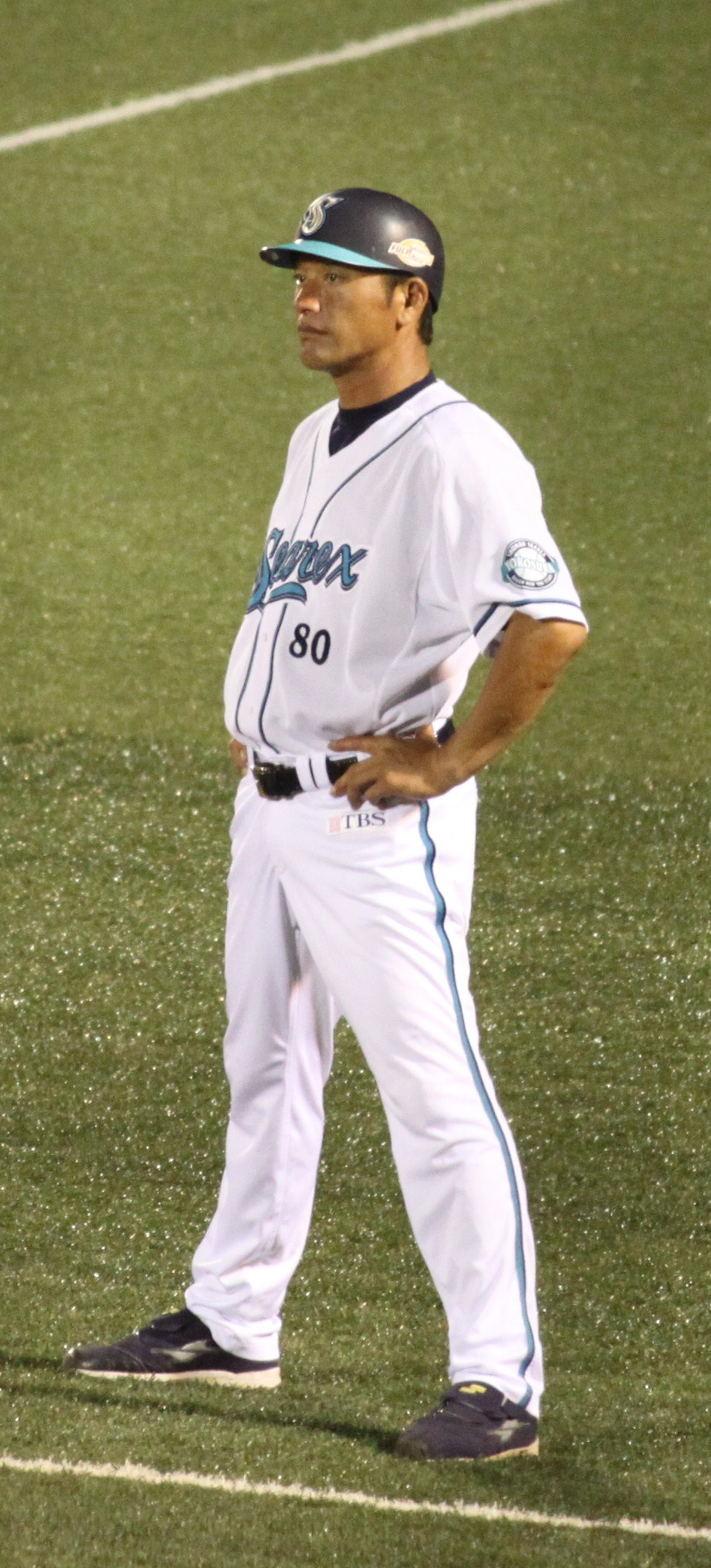 Hitoshi Nakane, coach of the Shonan Searex, at Yokosuka Stadium.